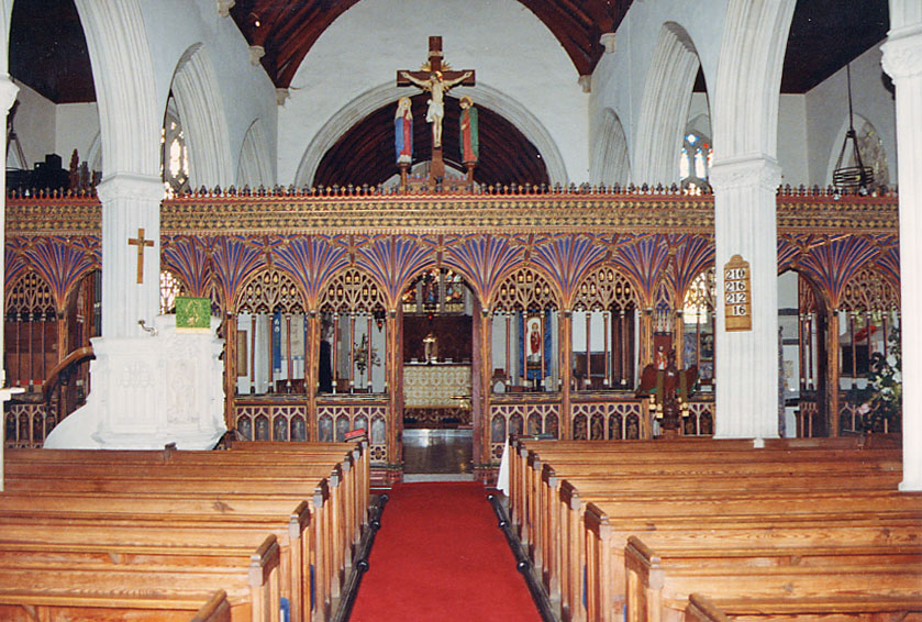 St Dicen, Bradninch, Devon - East end